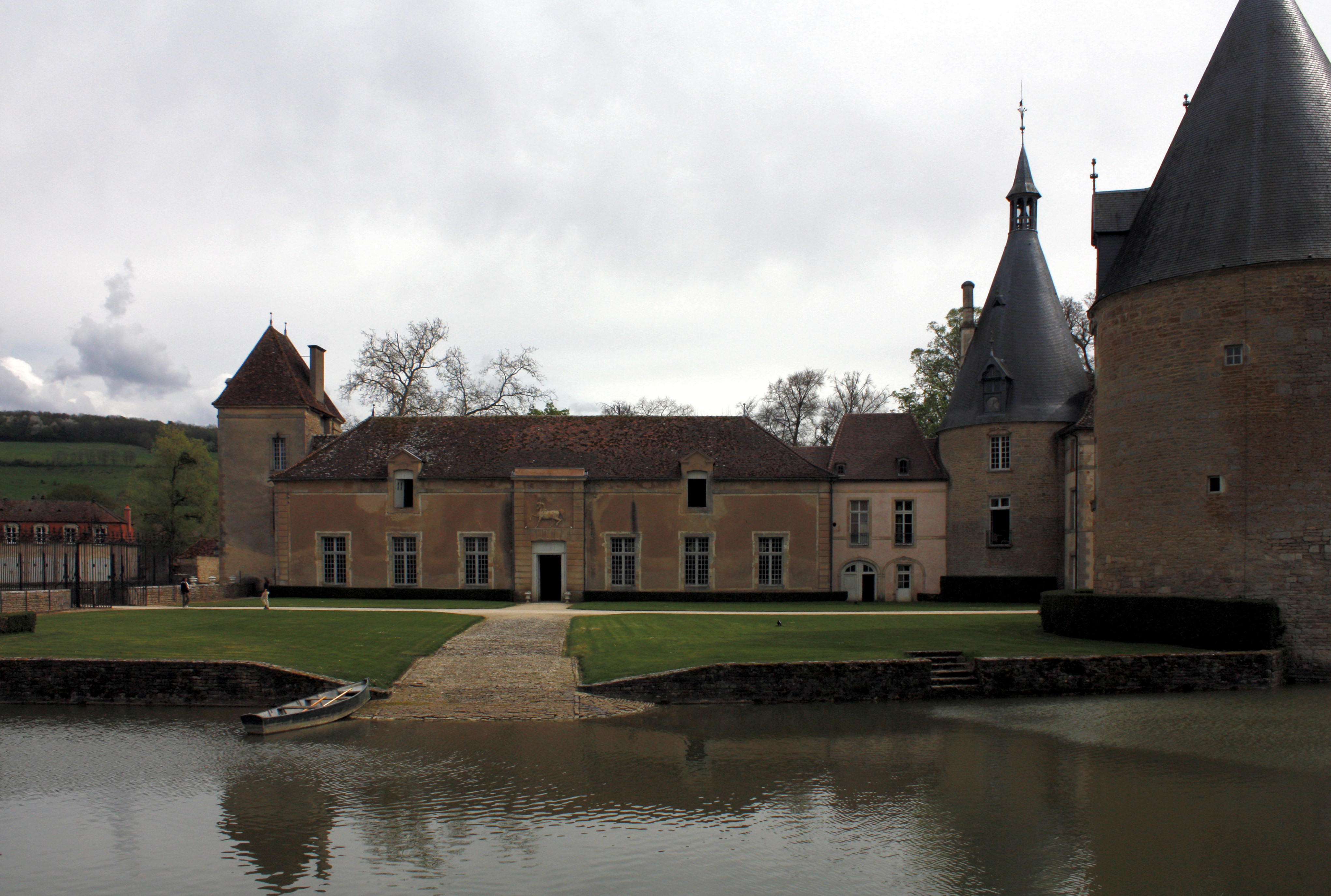 The wall has been destroyed to construct a trough in front of stables.